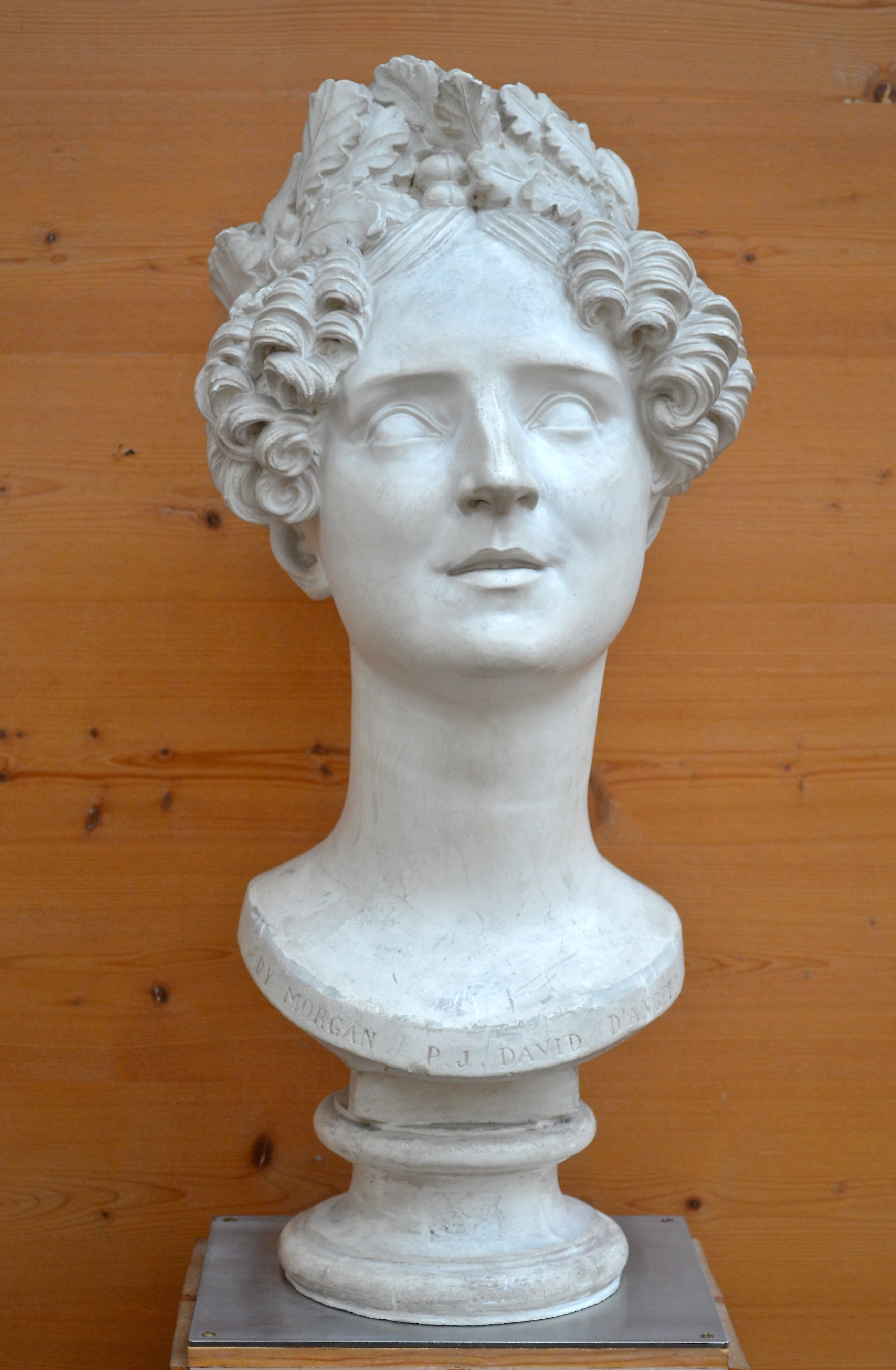 Irish writer Lady Morgan's bust by sculptor David d'Angers (1830).